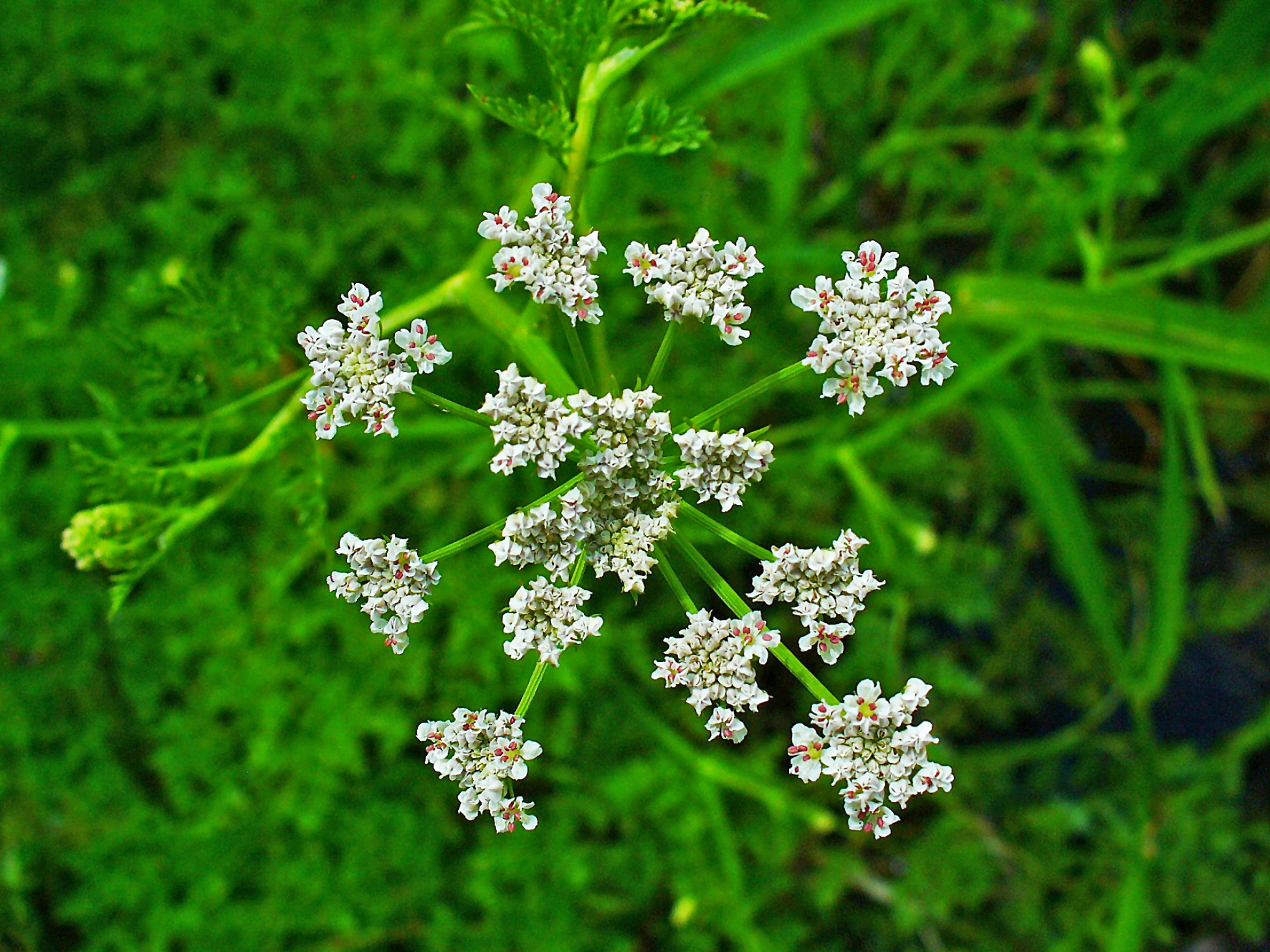 Oenanthe aquatica, Apiaceae, Fine Leaved Water Dropwort, inflorescence. Botanical Garden KIT, Karlsruhe, Germany.